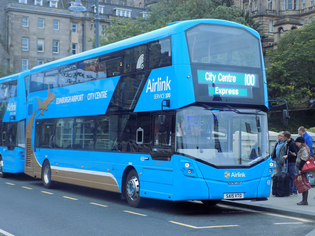 New Airlink Bus which serves Edinburgh Airport